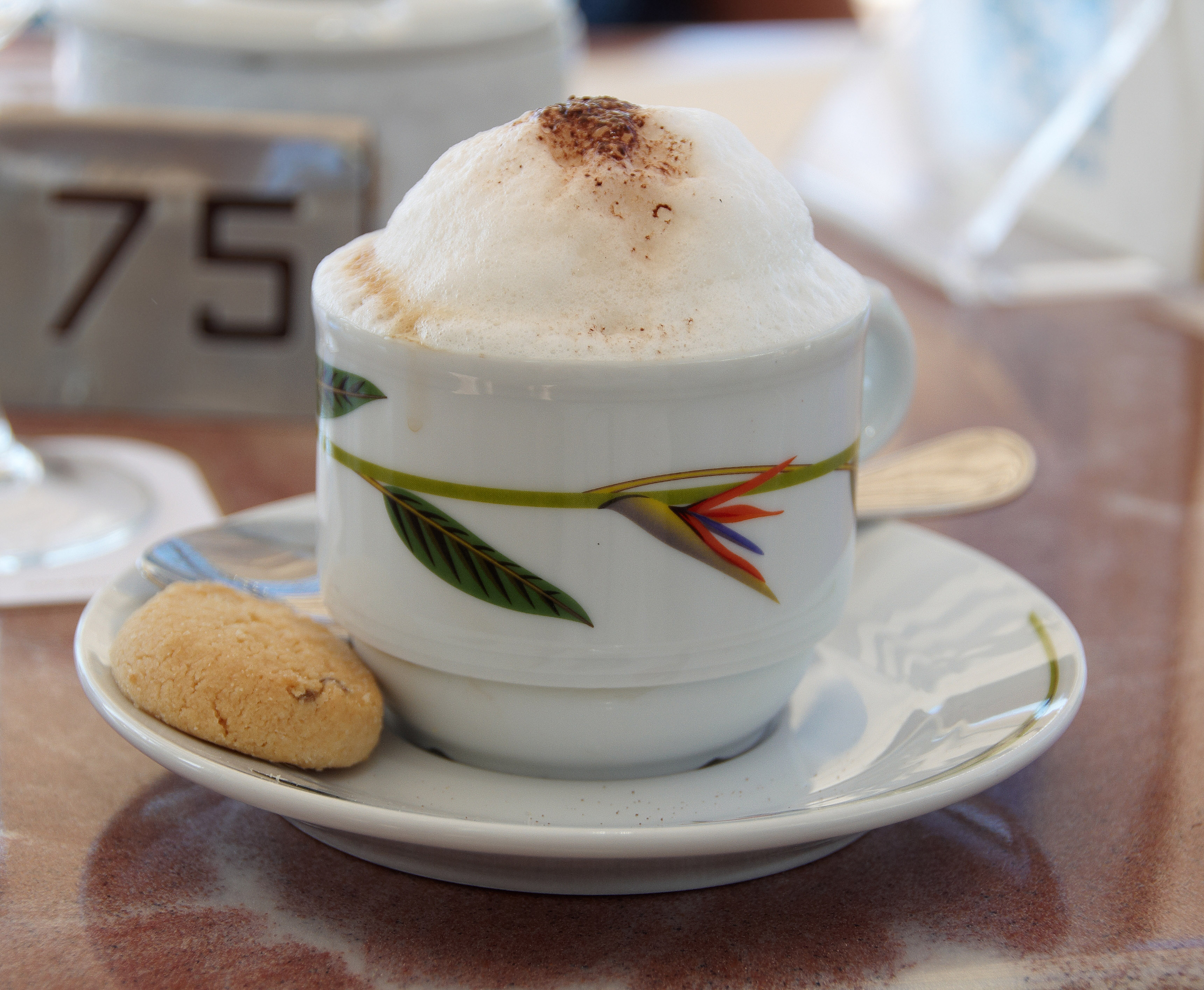 A cup of cappuccino